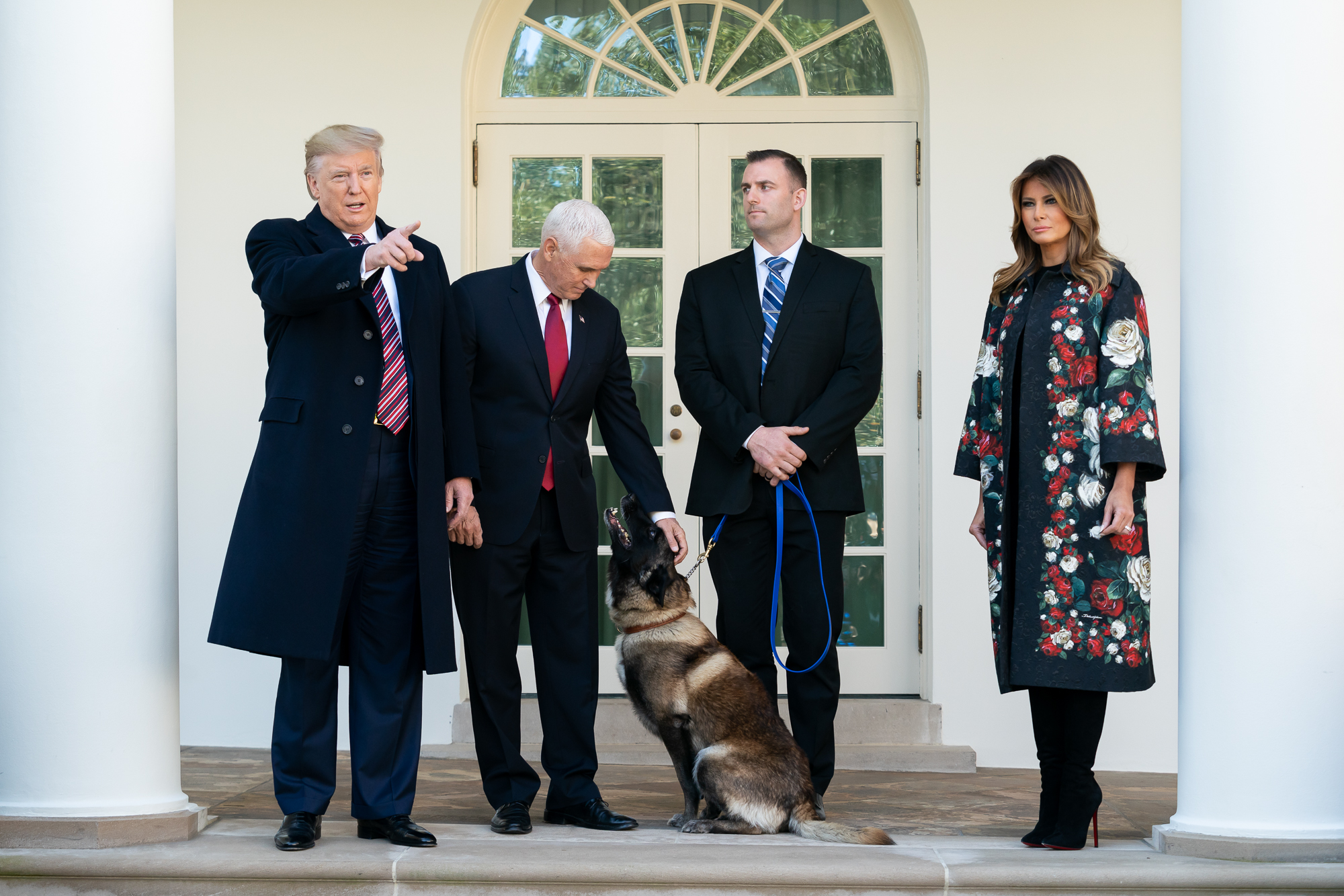 President Donald J. Trump, joined by First Lady Melania Trump and Vice President Mike Pence, introduces Conan, a Belgian Malinois military dog, to members of the press Monday, Nov. 25, 2019, in the Rose Garden of the White House. Conan participated in October’s Special Operations mission in Syria targeting ISIS leader Abu Bakr al-Baghdadi. (Official White House Photo by Andrea Hanks)